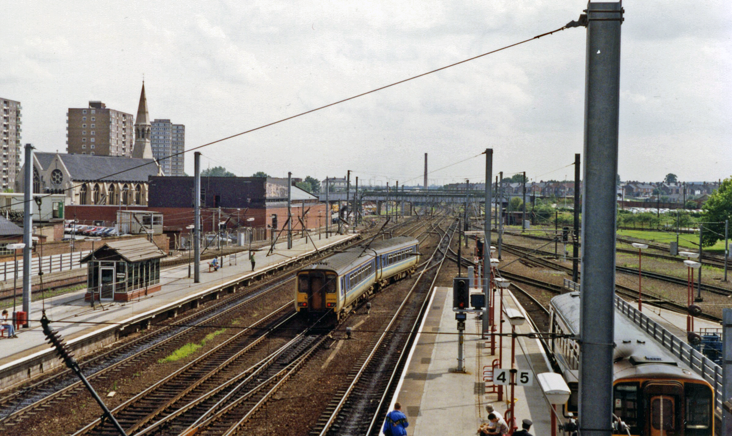 Southward approach to Doncaster station, ECML 1992. View from the footbridge, towards everywhere southward on the ex-GNR East Coast Main Line, also westward on the ex-GCR (South Yorkshire section) towards Sheffield etc. All is greatly altered since electrification in 1987. Off to the right is the ex-GNR Locomotive & Carriage Works. 'Deadly dull' DMUs dominate.